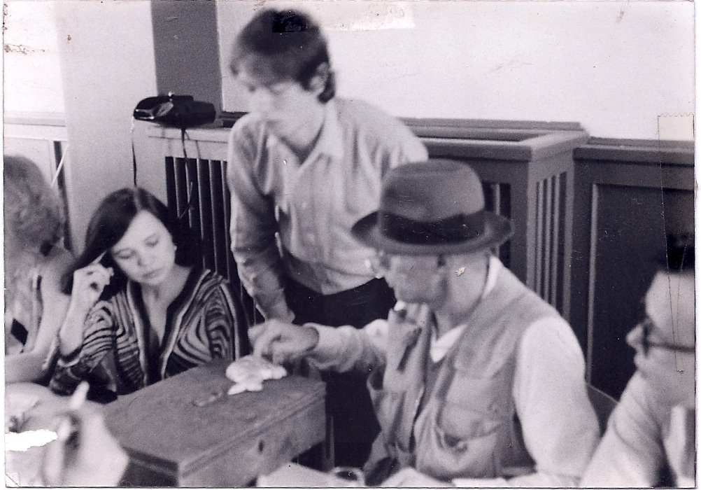 From left to right, Brigitte Schenk, Joseph Beuys and Johannes Stüttgen. The photograph shows the outcome of Joseph Beuys’s 1982 performance of the melting of Tsar Ivan the Terrible’s crown into the shape of a hare on the occasion of the Documenta 7 in Kassel and the artist's 7000 Oaks project.